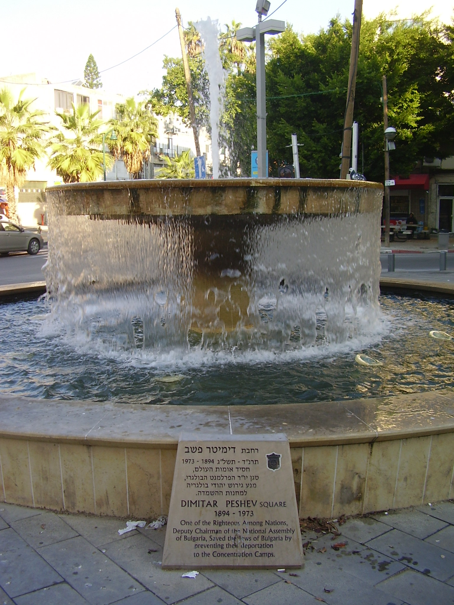 dimitar peshev square in yaffo